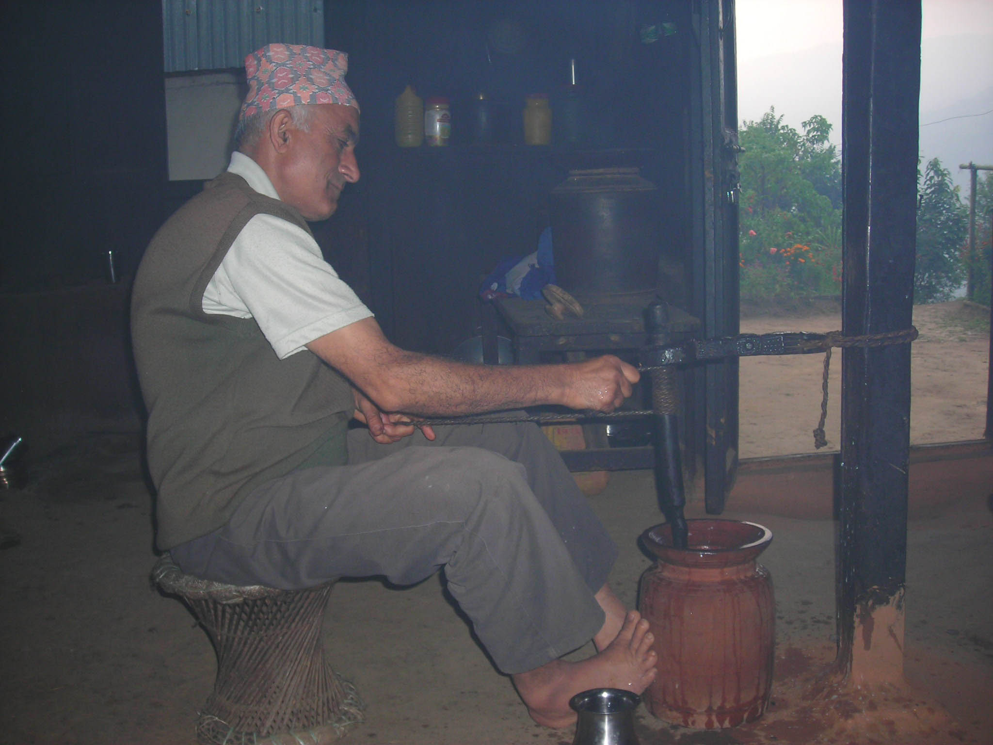 Theki: A traditional Nepalese wooden pot to churn yogurt.